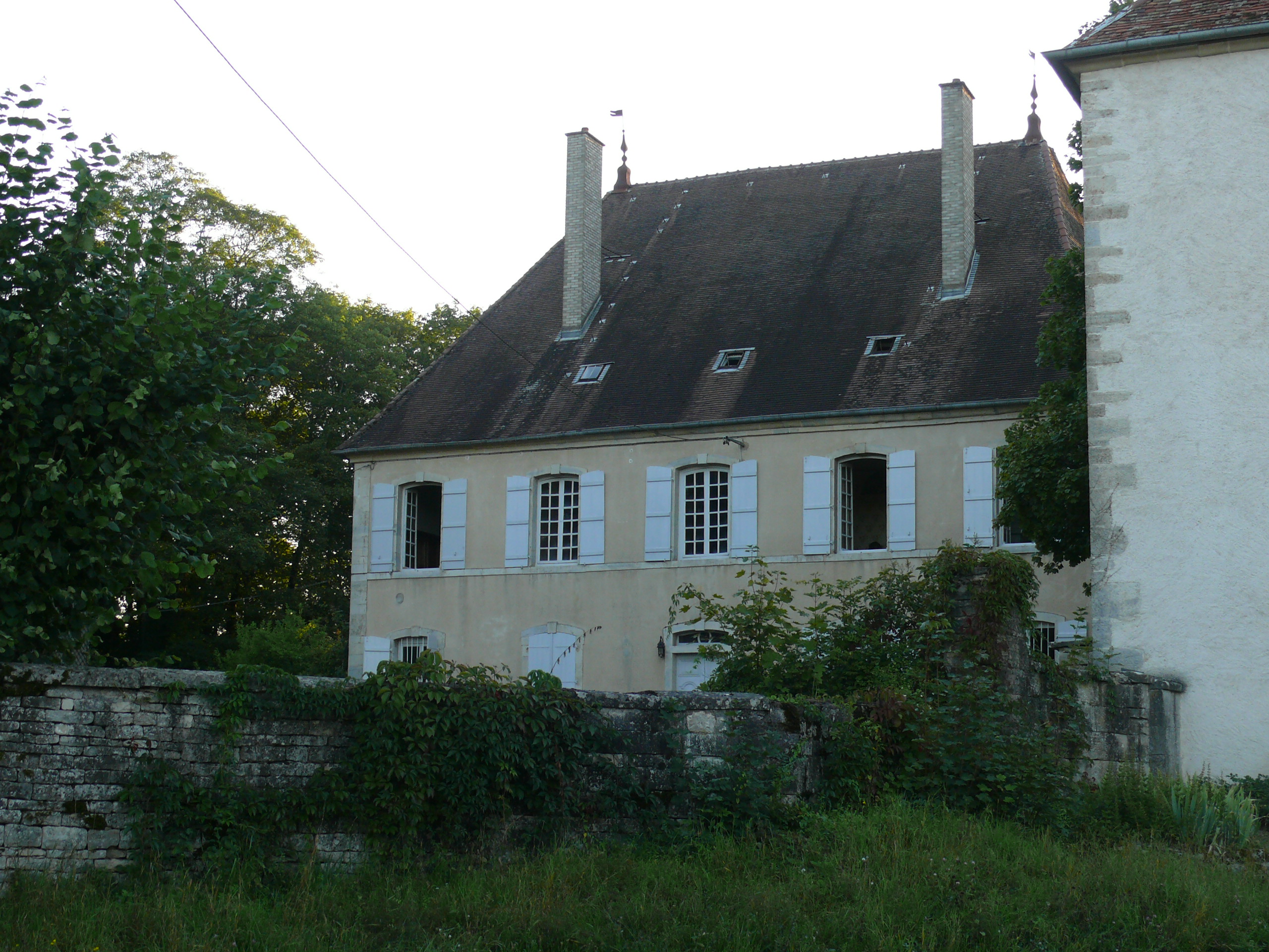 East front of the manor house of Colombe-lès-Vesoul (Haute-Saône, France)